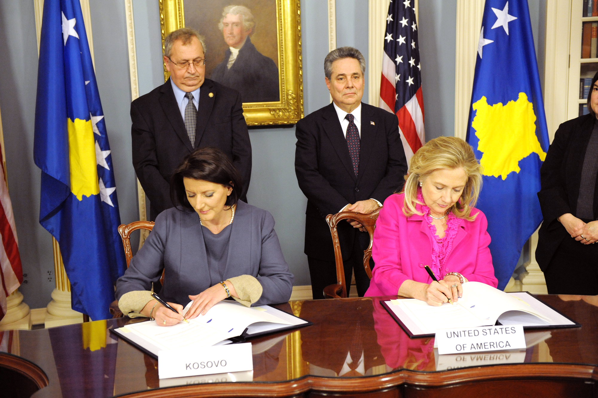 U.S. Secretary of State Hillary Rodham Clinton and President of Kosovo Atifete Jahjaga sign the U.S.-Kosovo Agreement on the Protection and Preservation of Certain Cultural Properties, at the U.S. Department of State in Washington, D.C., on December 14, 2011. [State Department photo/ Public Domain]